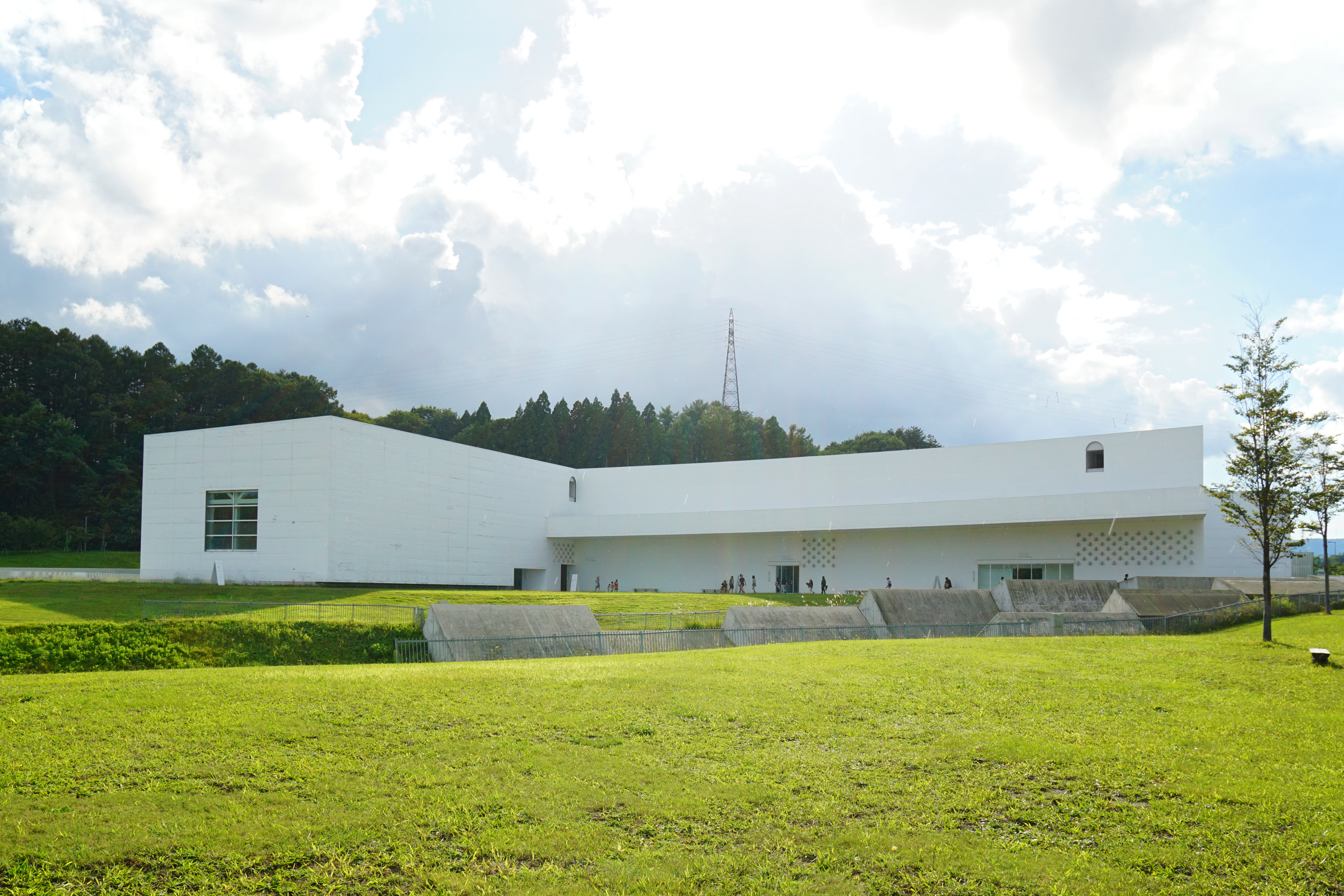 Aomori Museum of Art in Aomori, Aomori prefecture, Japan.